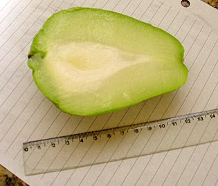 Cutaway picture of Chayote. Ruler has 1cm/1mm markings.